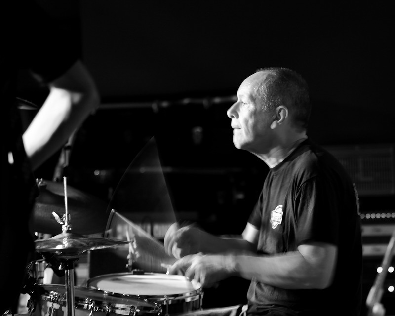 Brian Downey playing at McHughs Drogheda, Ireland 4th September 2009